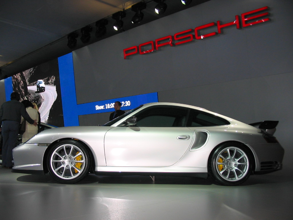 Silver Porsche 996 GT2. Photo taken at IAA.